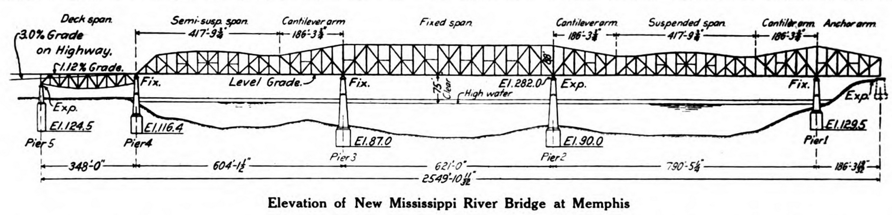 Harahan Bridge Elevation Plan